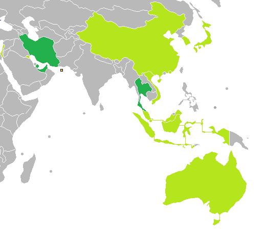 Host nations of the AFC Asian Cup. (1956 ~ 2019)